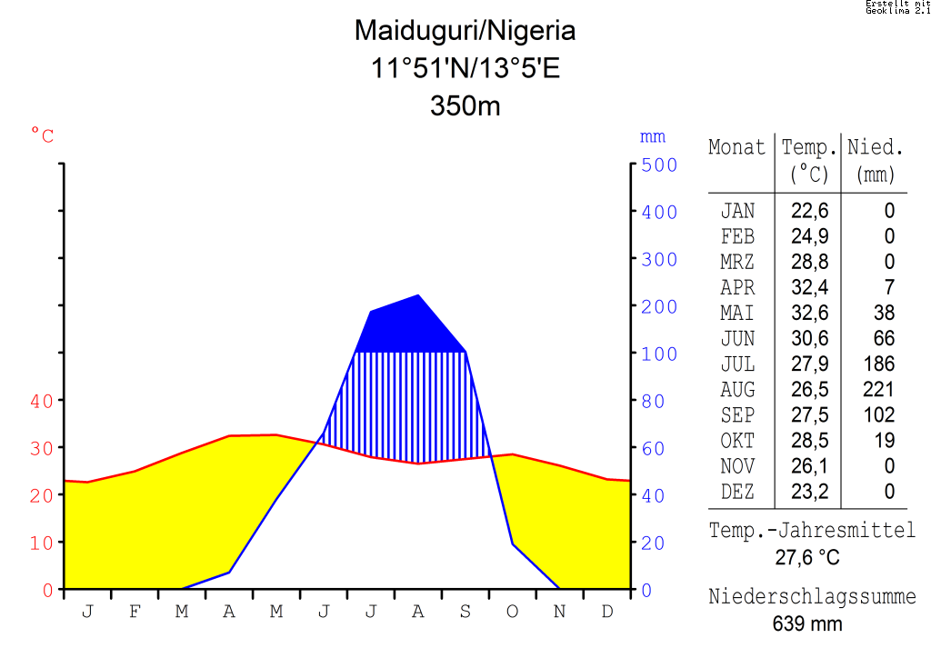 climate chart in the format by Walther and Lieth, metric, °Celsisus and millimeters, made with Geoklima 2.1 DateOctober 2006SourceSoftware: Geoklima 2.1 Website GeoklimaAuthorHedwig in WashingtonPermission(Reusing this file) Own work, attribution required (Multi-license with GFDL and Creative Commons CC-BY 2.5)